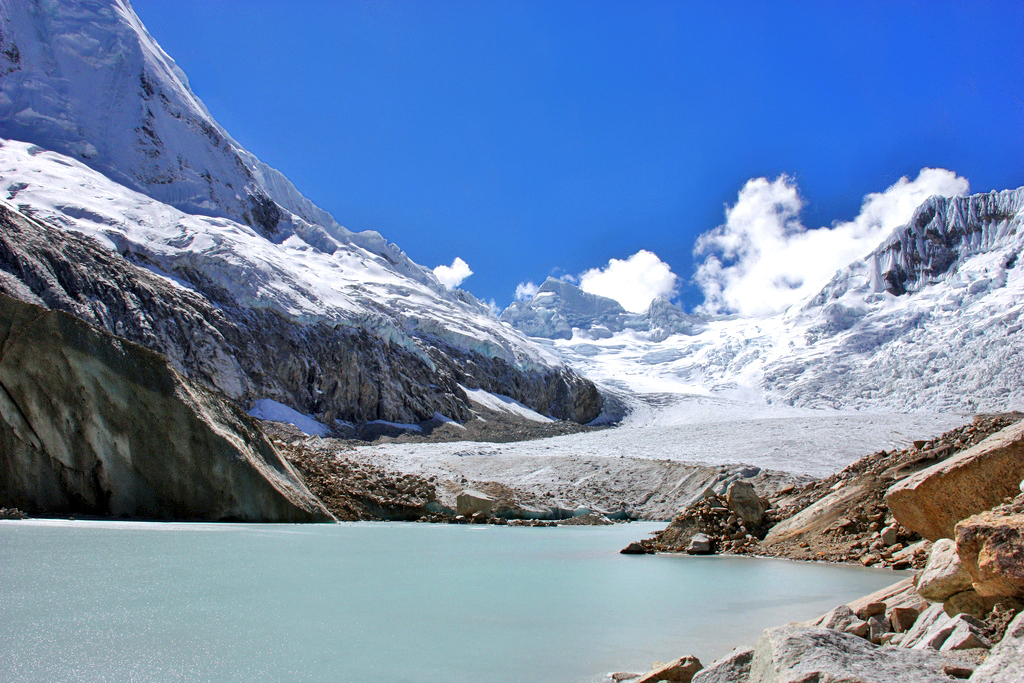 Artesonraju glacier located in central Peru in the Cordillera Blanca (White Range).